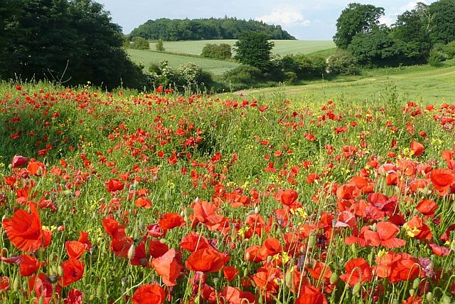 Poppies on the field edge, near to Peasemore, West Berkshire, Great Britain. East of Peasemore the countryside is rolling arable fields interspersed with woodland, such as Lower Hailey Copse, in the centre of the square, seen on the horizon. The deliberately uncultivated field edge was a mass of poppies.